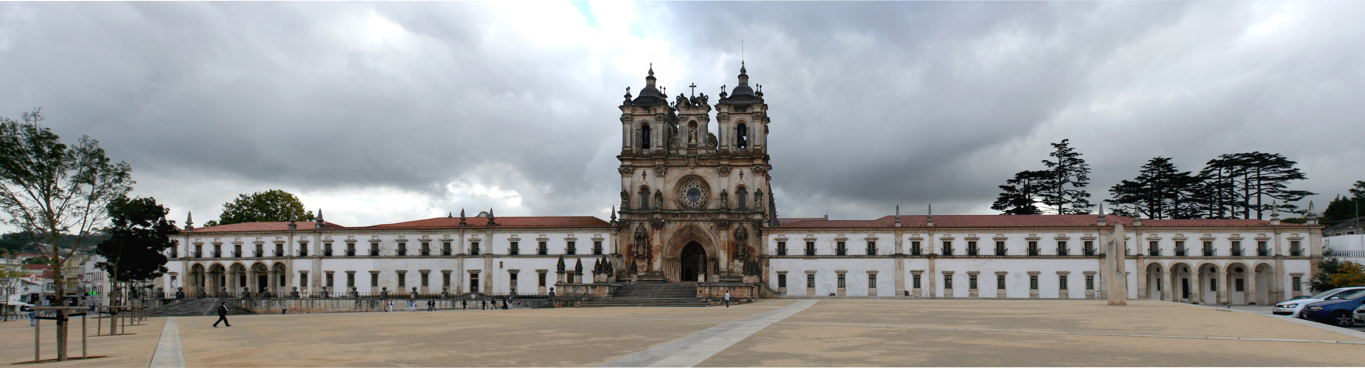 Front side of Monastery of Alcobaca